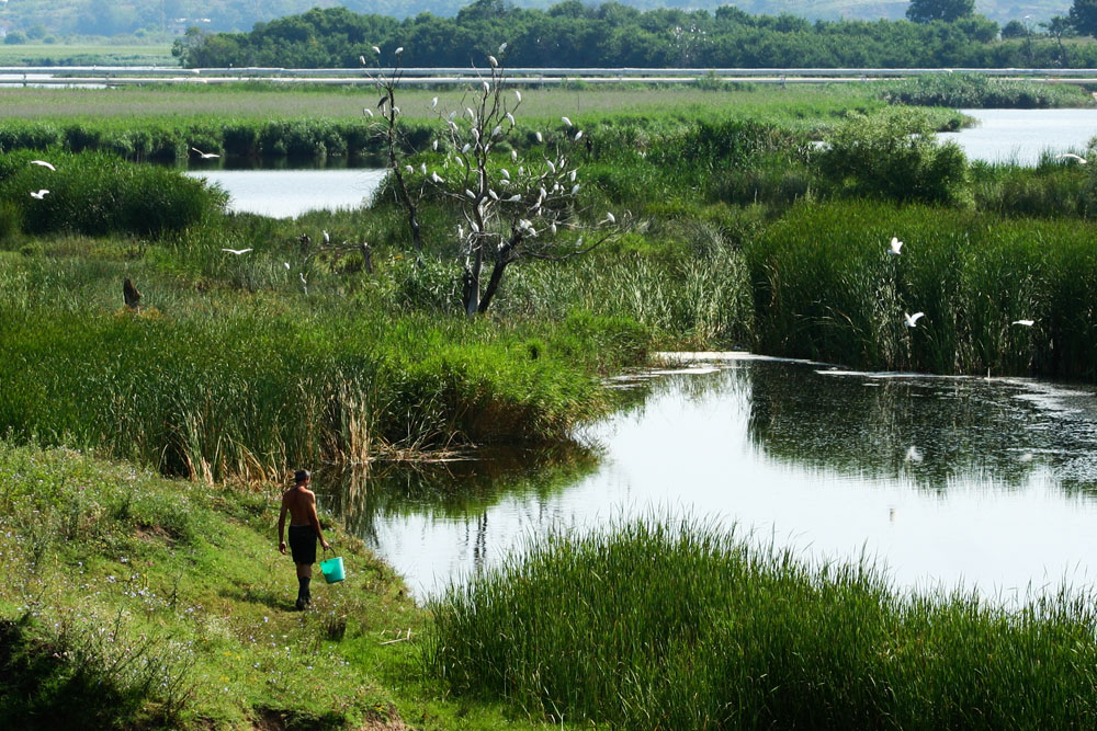 Uzungeren